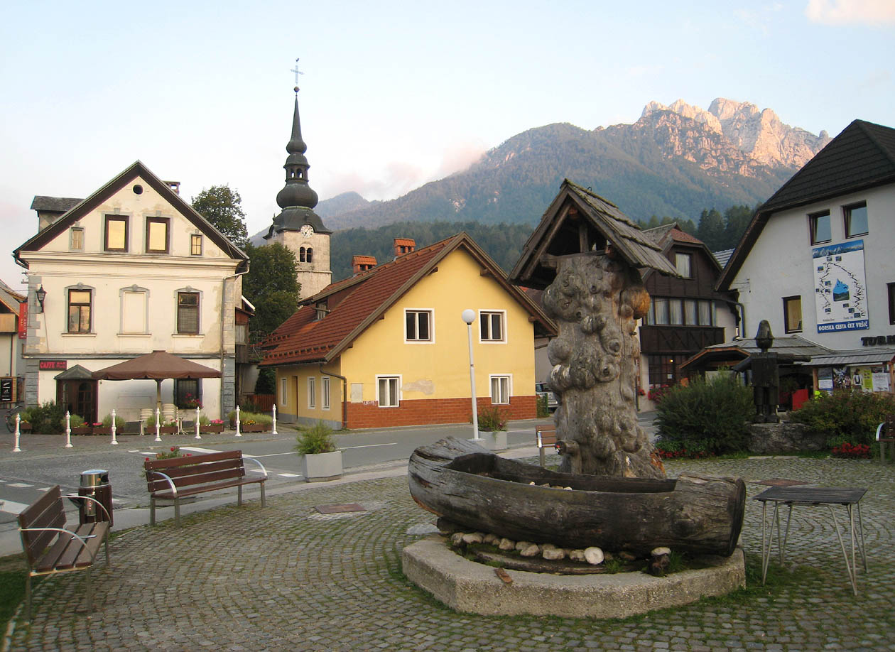 The centre of Kranjska Gora